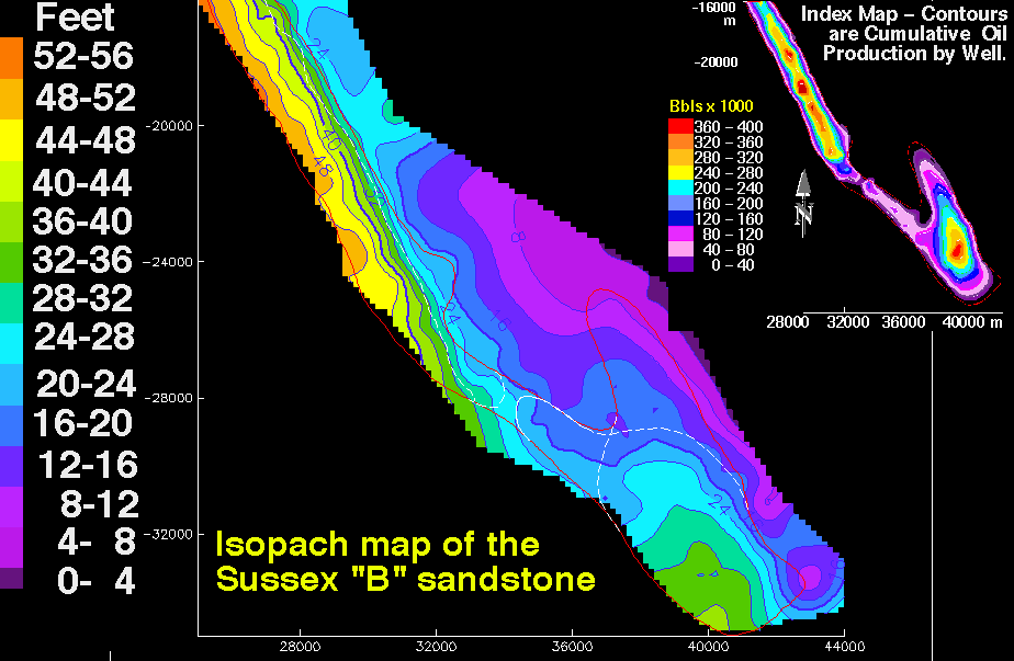 Isopach map of the Sussex "B" sandstone showing thickness in feet of the interval between bounding disconformities; contour interval is 4 ft (1.2 m). Map scales are meters. The small index contour map is cumulative oil production; contour interval is 40,000 barrels. The thin red line outlines the boundary of the House Creek field. Thin white lines in the southern half of the field are limits of sand-ridge 1 and overlying sand-ridge 2. This image is in the public domain because it only contains materials that originally came from the United States Geological Survey, an agency of the United States Department of the Interior. For more information, see the official USGS copyright policy.